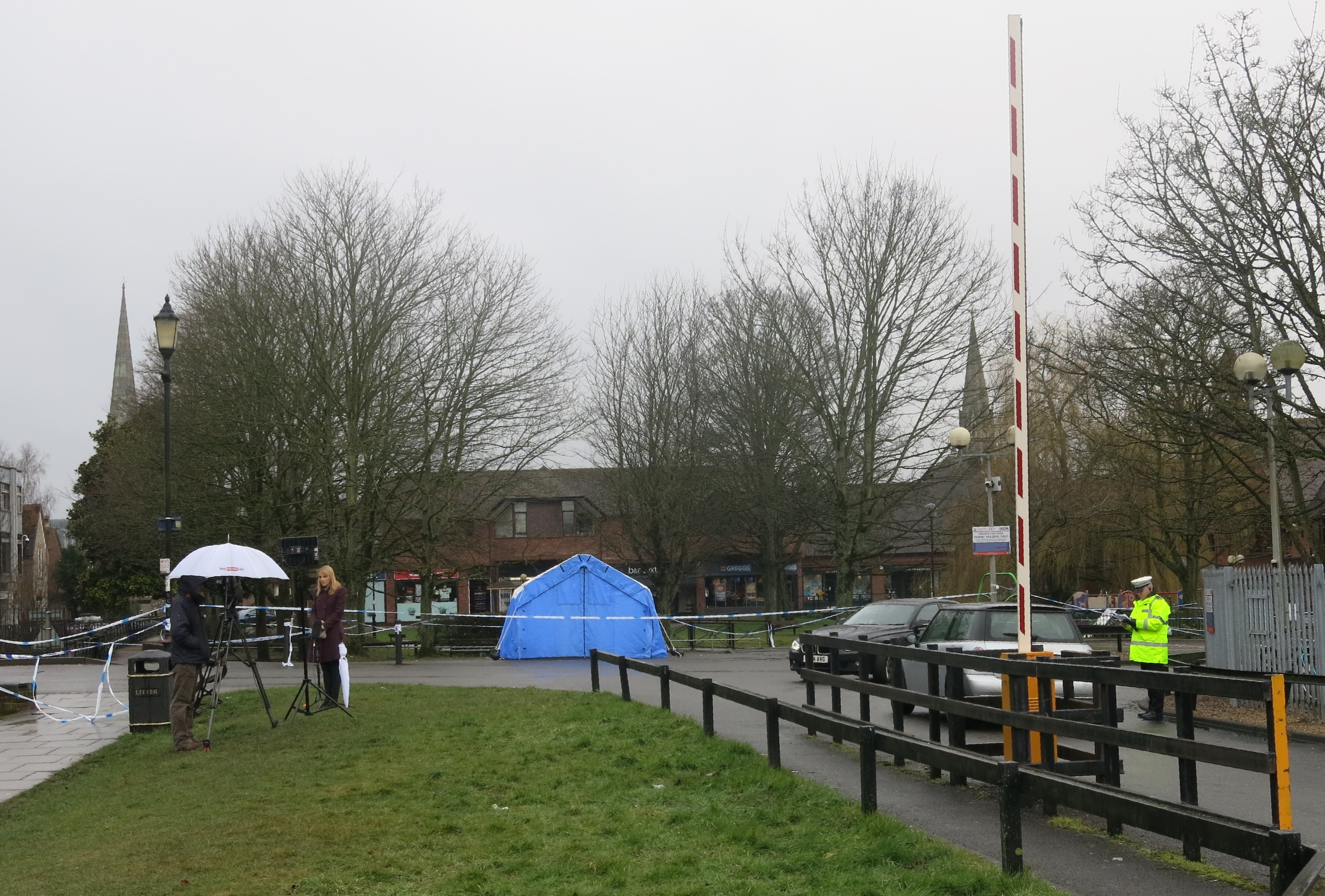 Interview taking place in the Maltings following the attempted assassination.